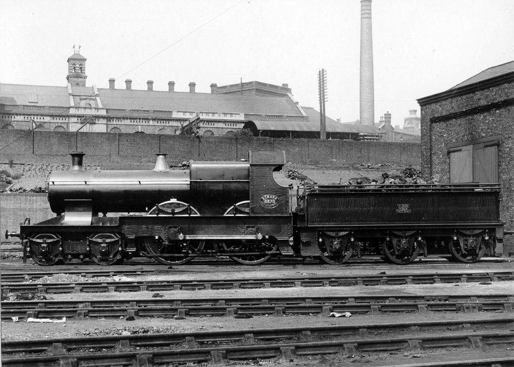 Atbara class engine of the Great Western Railway.